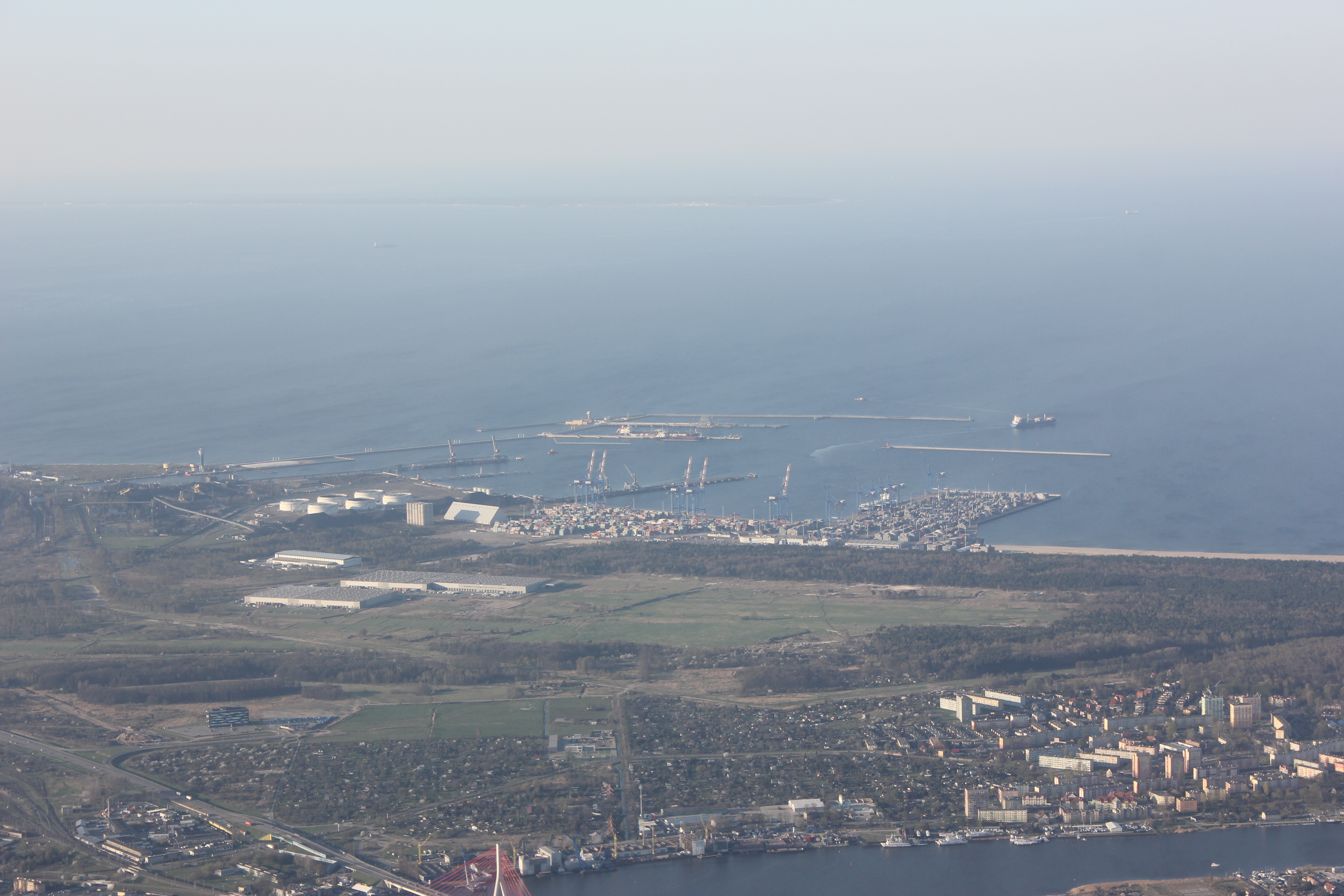 Gdańsk - Northern Port - aerial view